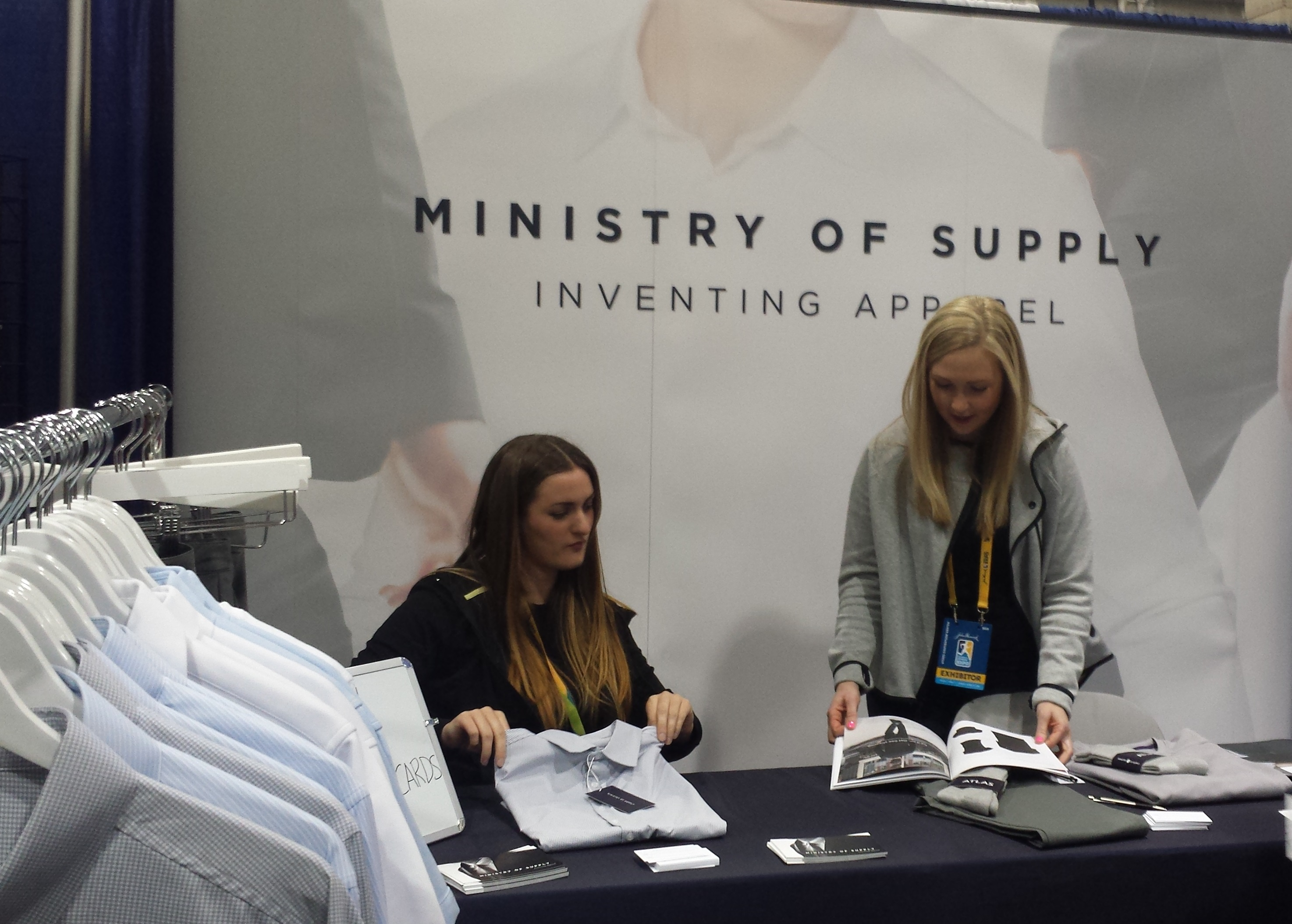 The Ministry of Supply display at the Boston Marathon Expo in April of 2015. Other information Cropped from the original.